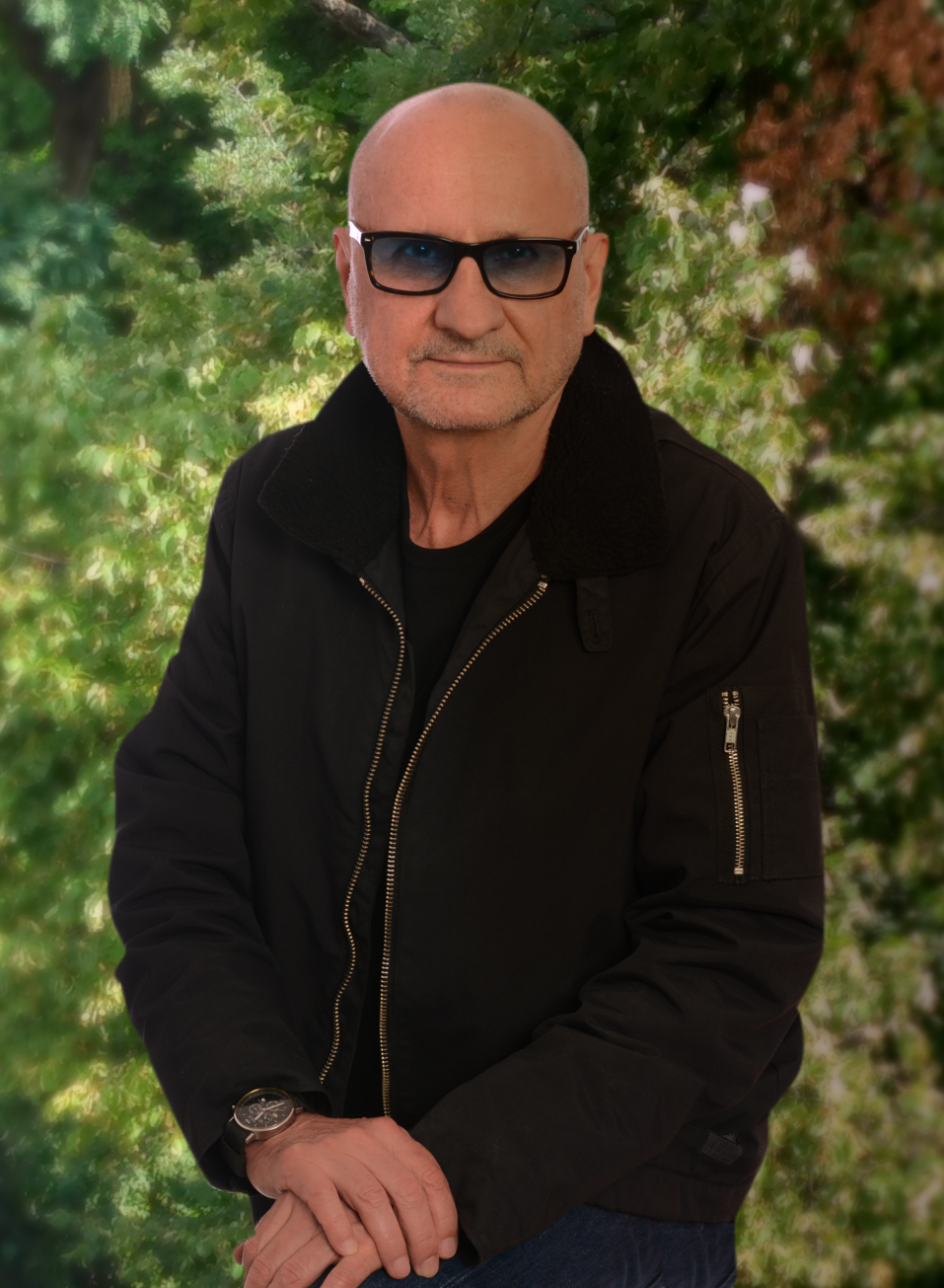 German Experimental Filmmaker Christoph Janetzko